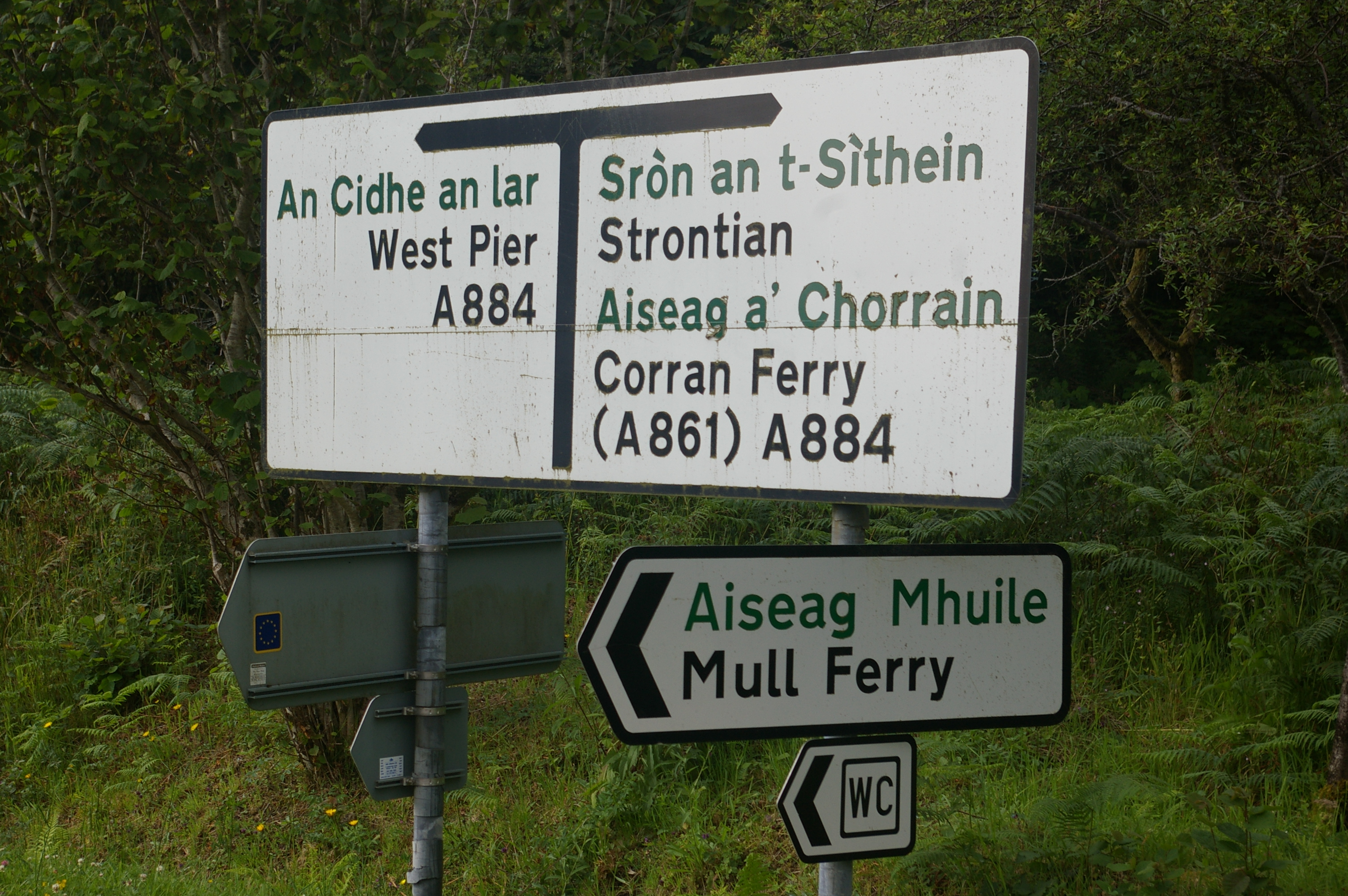 Bilingual Gaelic-English road sign in Scotland near the ferry to Mull